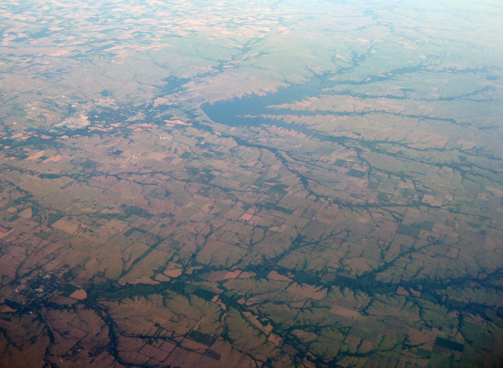 Oblique air photo of El Dorado, Kansas and El Dorado Lake, facing northwest. 1 August 2011. Color and contrast enhanced in Photoshop.